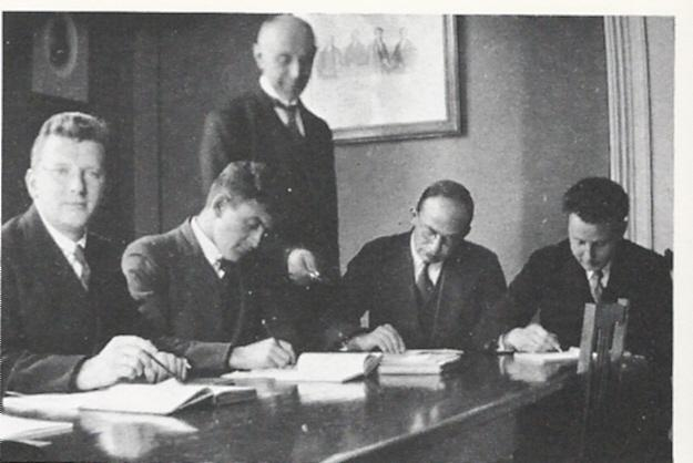 Student van Minnen en medestudenten